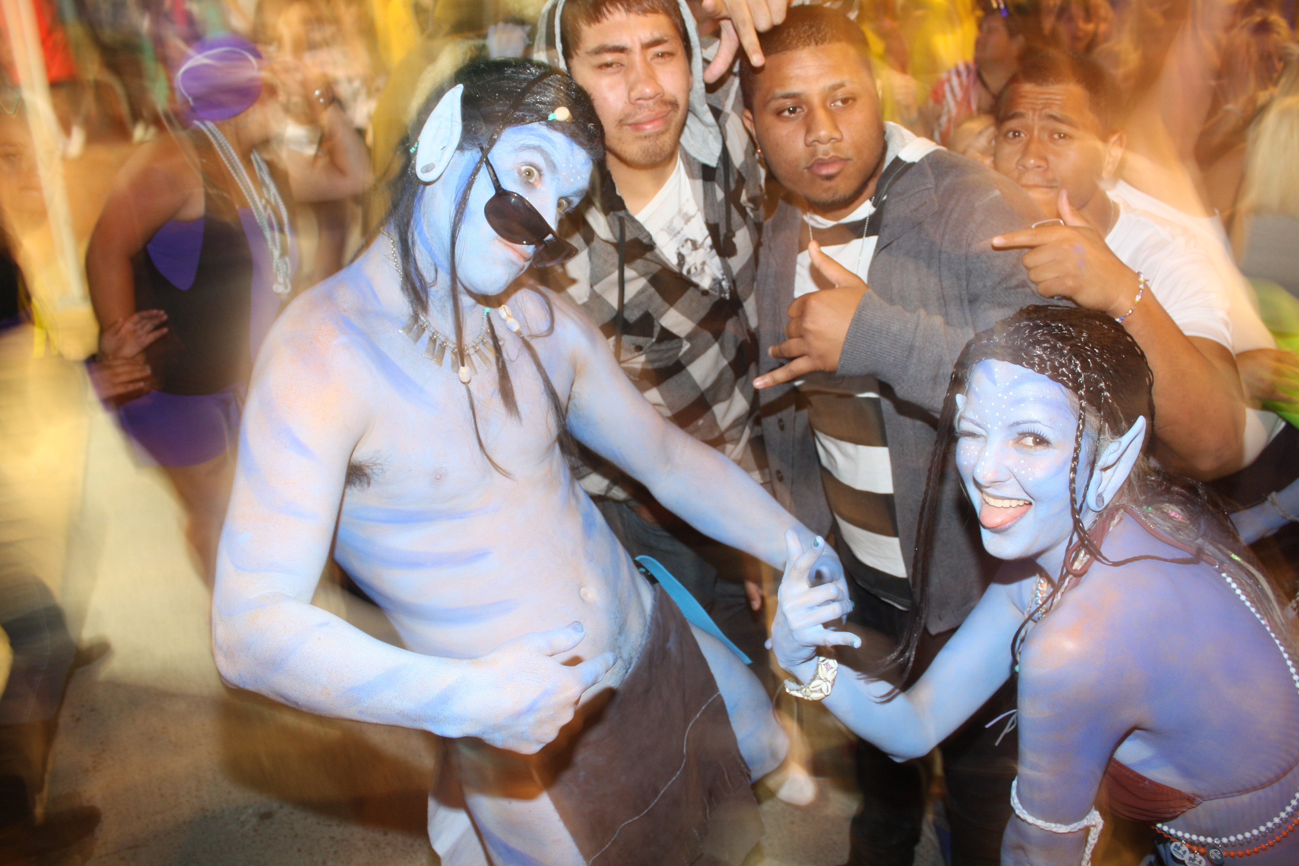 Costumed Na'vi Dance.